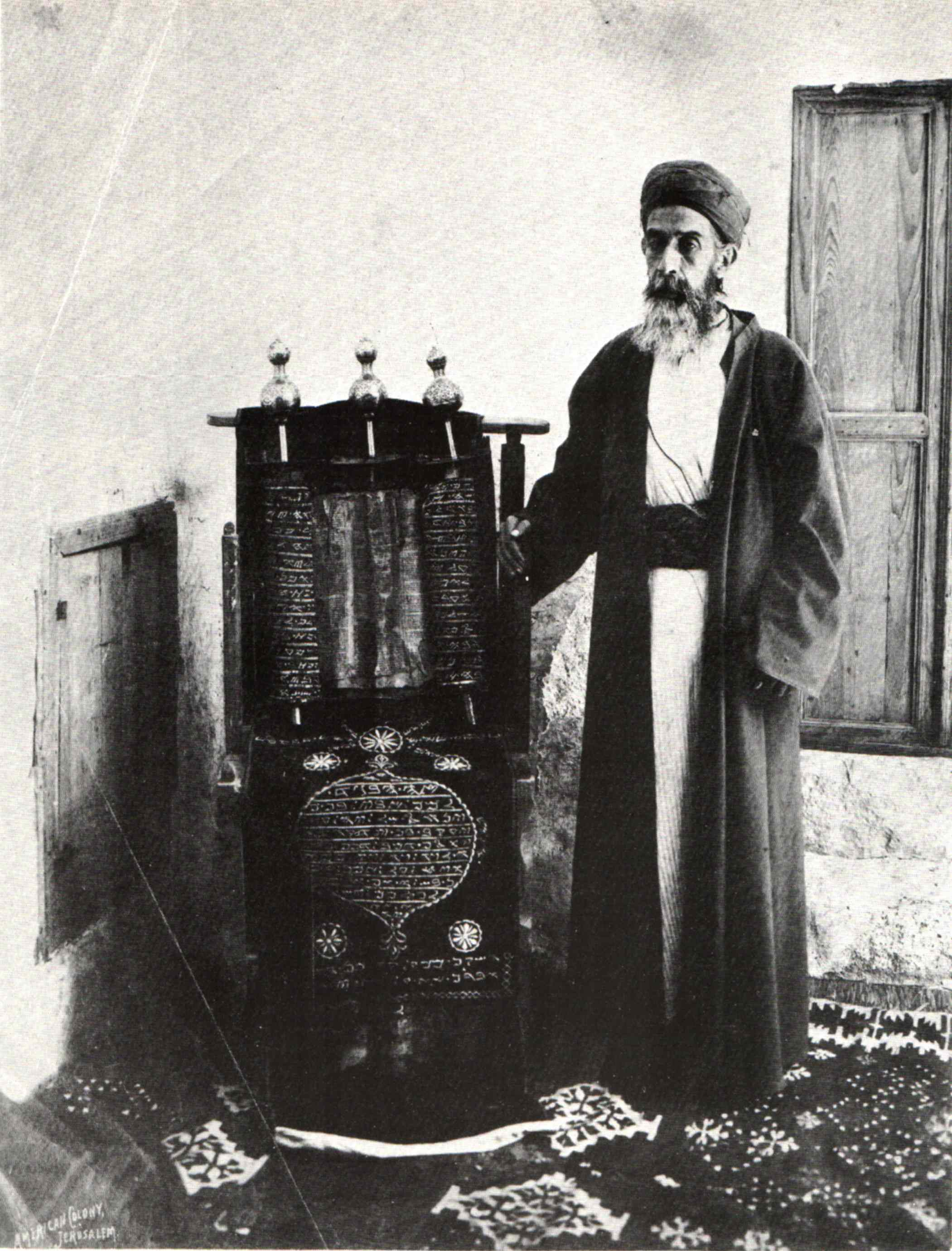 Samaritan High Priest Yaacov ben Aaharon ben Shalma (1900)